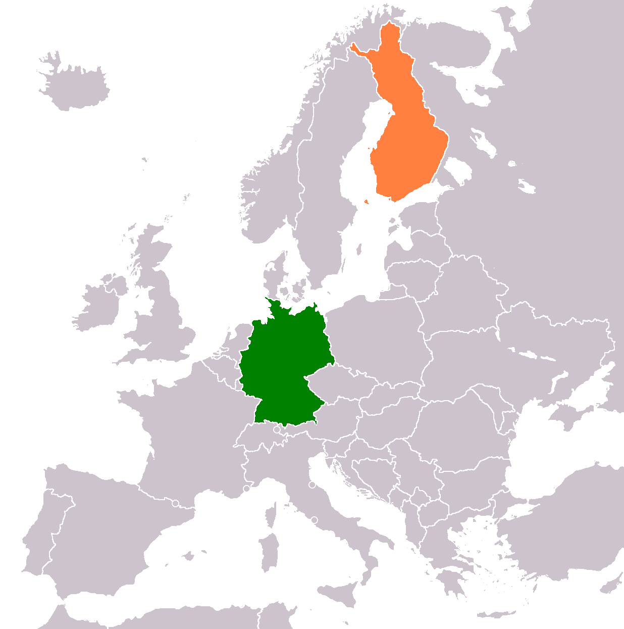 Finland-Germany locator map